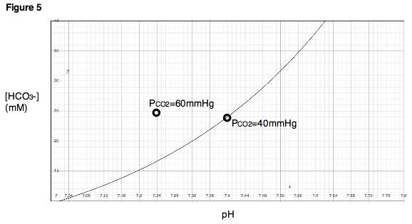 Description: Figure 5. A new point is reached following a change in PCO2.